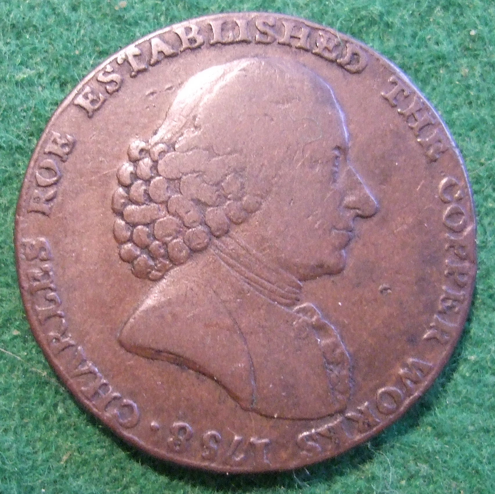 Liverpool, England. legend reads "CHARLES ROE ESTABLISHED THE COPPER WORKS 1758."